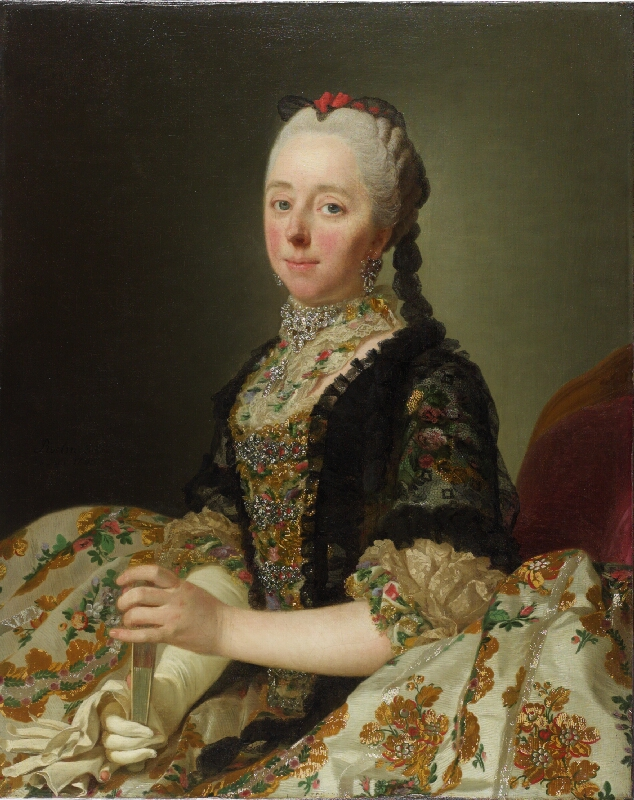 The Countess of Hertford (1726–1782), née Isabella FitzRoy, wife of Francis Seymour-Conway, 1st Marquess of Hertford (1718–1794)